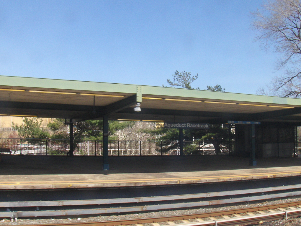 Aqueduct Racetrack Subway Station